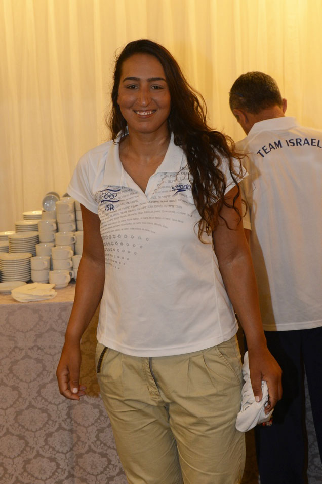 Vered Buskila, 2012